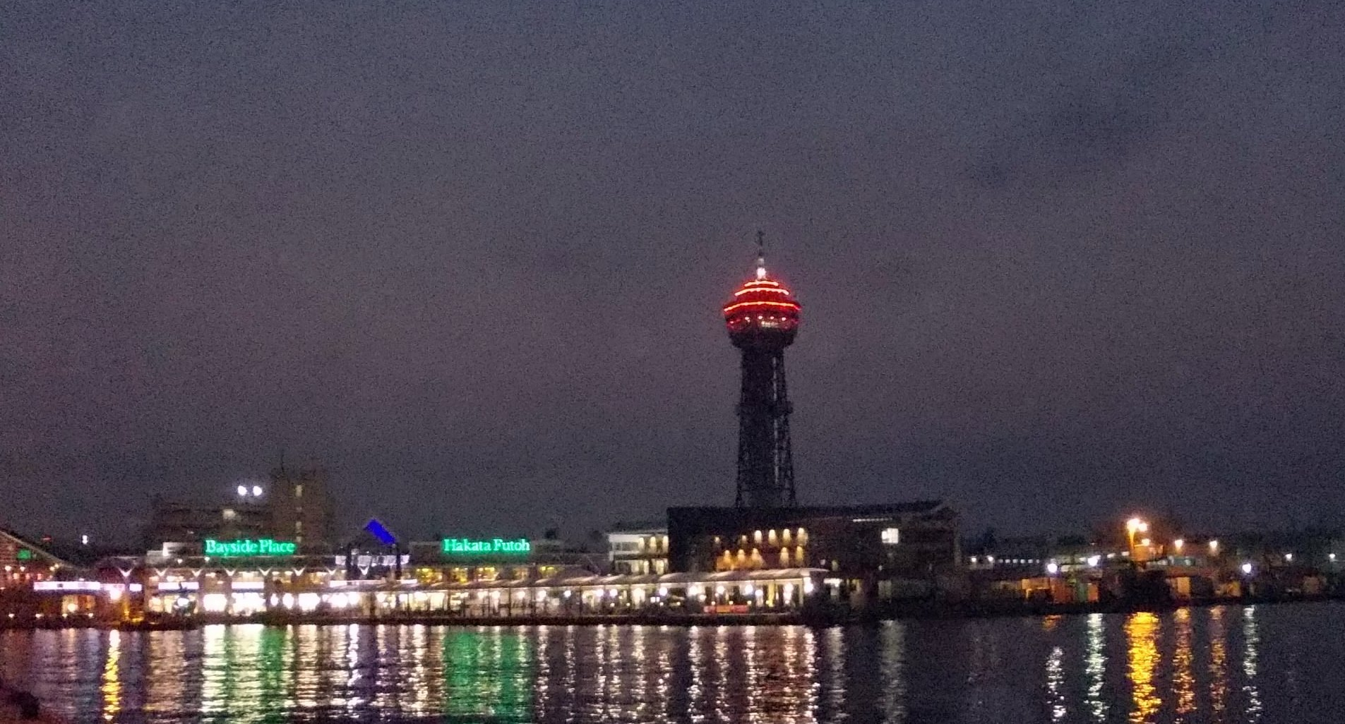 Night view of Bayside Place Hakata Pier and Hakata Port Tower.